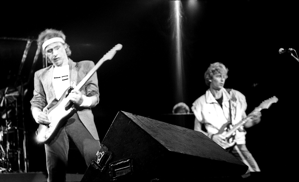 Dire Straits, 12th July 1983, Stadion Kranjčevićeva, Zagreb